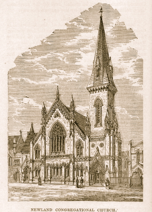 Newland Congregational Chapel, Lincoln, by Pearson Bellamy.